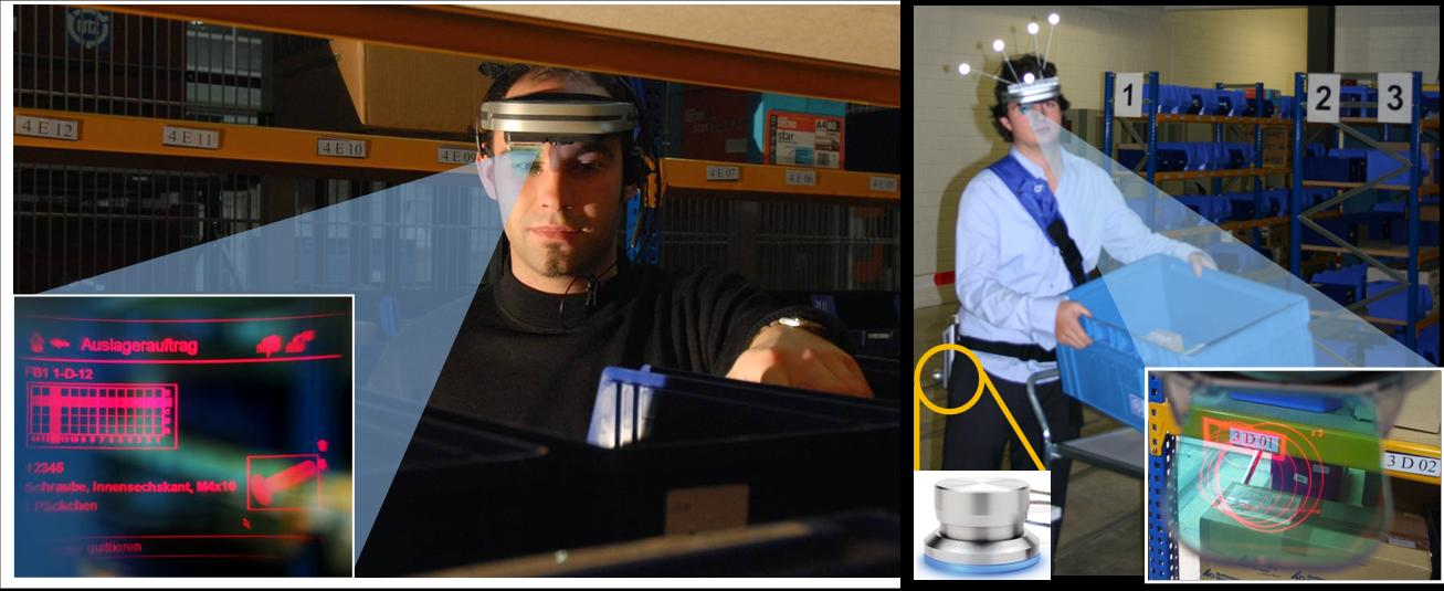 The picture shows two different Pick-by-Vision system developped by the Lehrstuhl fml and its partners (CIM GmbH and Fachgebiet für Augmented Reality). The left one is without trackingsystem. Thus, only text information is display in the head-mounted display. The right one with tracking system can display dynamic data in the field of view of the user, e.g. arrows or frames around the storing compartment.